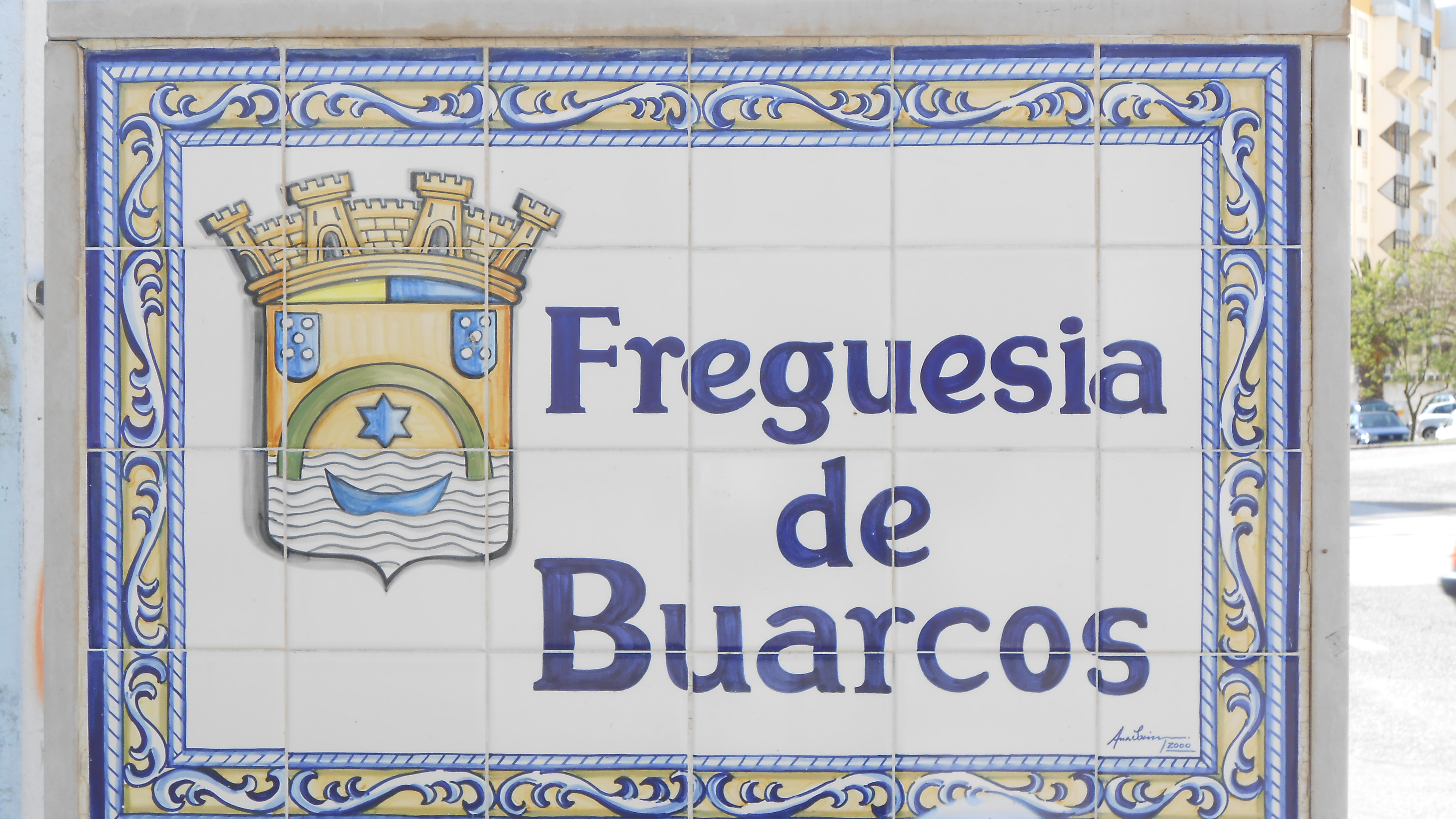 Town entrance sign of the parish of Buarcos